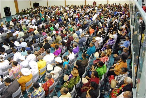 picture of church goers, women in church hats, men dressed at their best... Mangere Samoan AOG